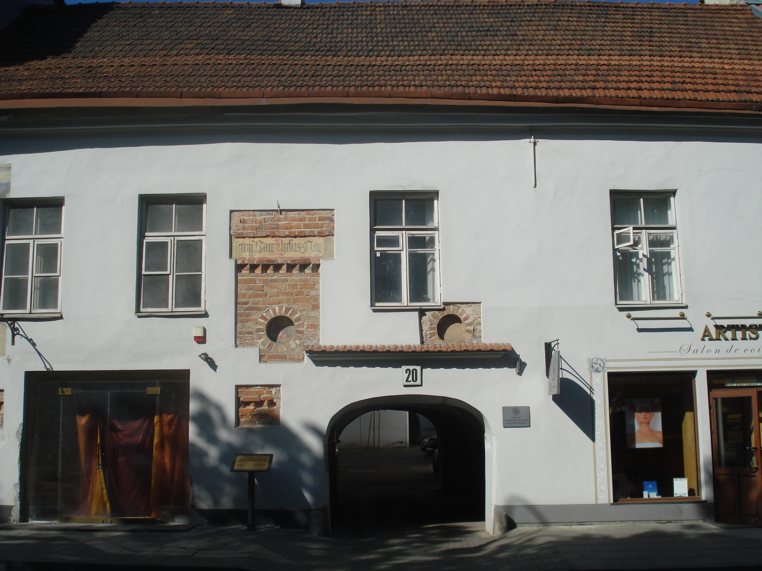 House in Vokiečių street in Vilnius (Vokiečių g. 20). The Gate to the Evangelical Lutheran Church